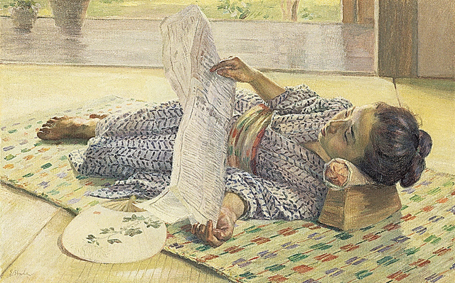 Girl Reading a Newspaper, by Wada Eisaku, University Art Museum, Tokyo University of the Arts, Japan